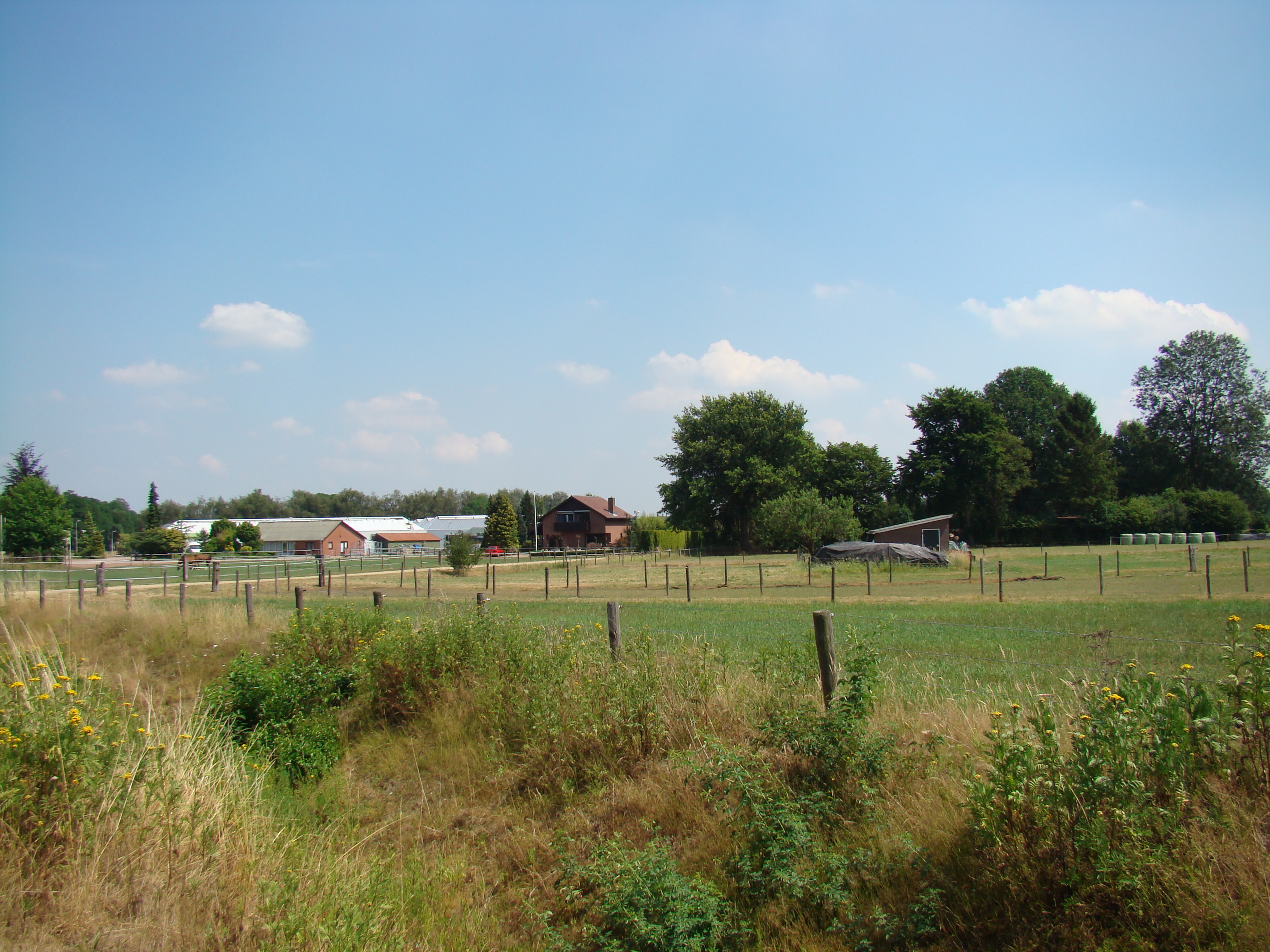 Zwanenbroek at Bredevoort (Netherlands)